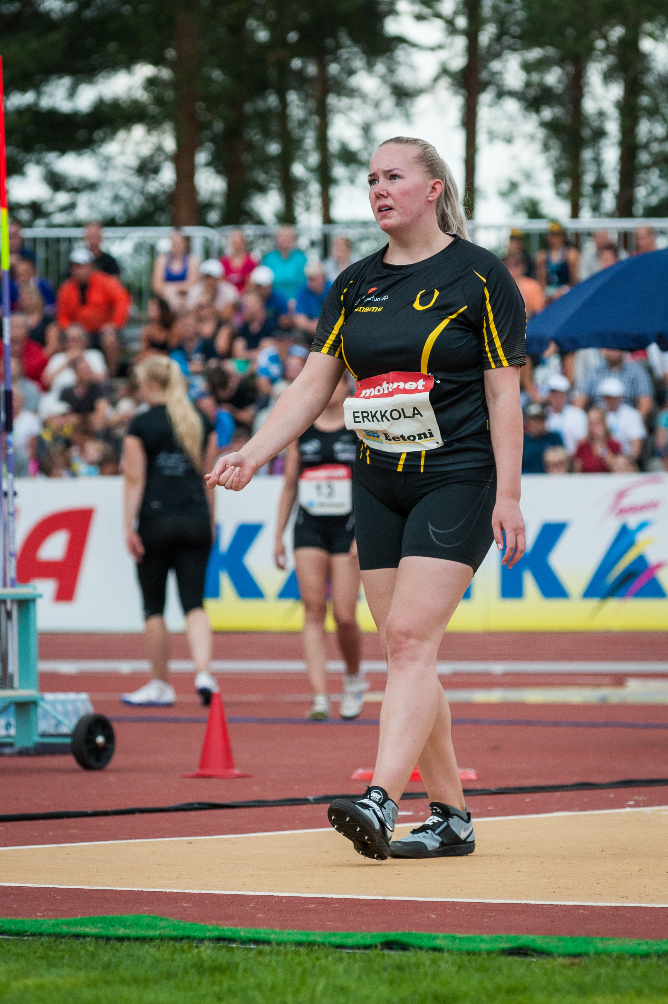 Women's javelin throw competition at the 2018 Kalevan Kisat, the Finnish championships in athletics, in Jyväskylä, Finland.